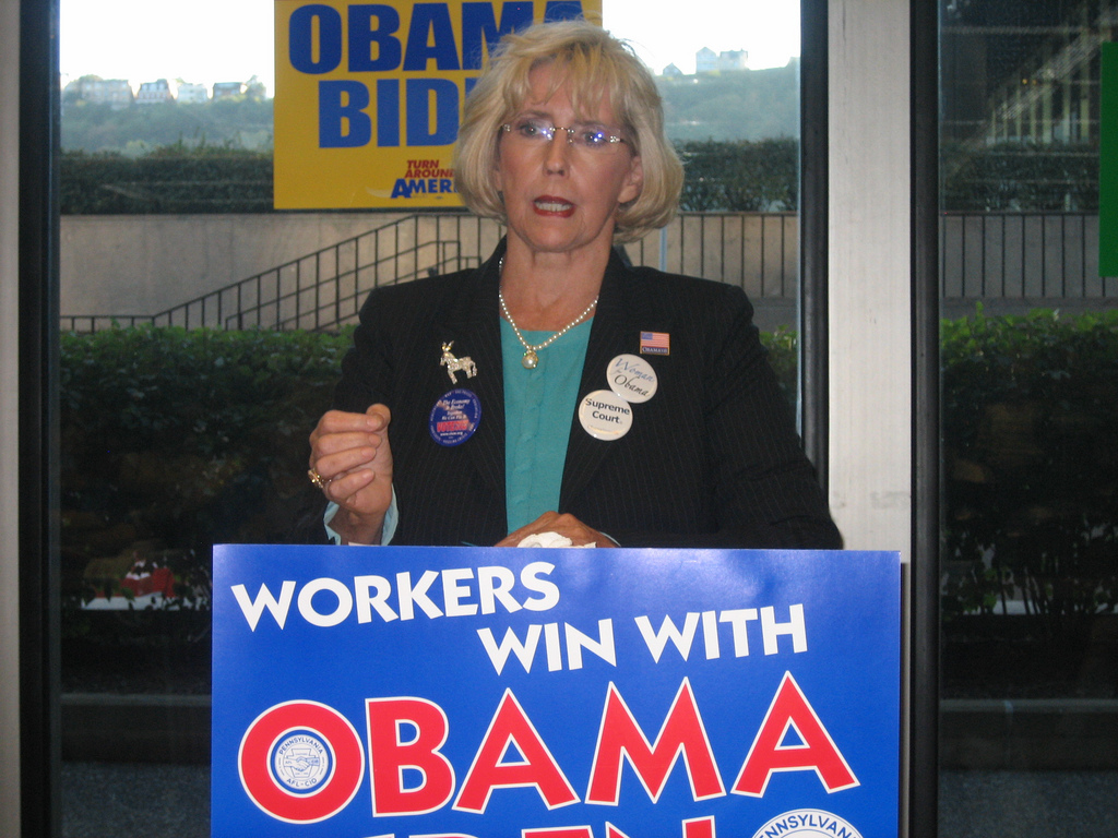 PA: Lilly Ledbetter Visits Pittsburgh to Discuss Why Barack Obama is the Best Candidate for Working Families